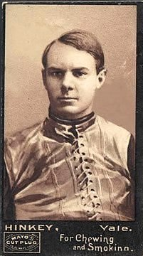 Mayo's Cut Plug football card of Frank Hinkey